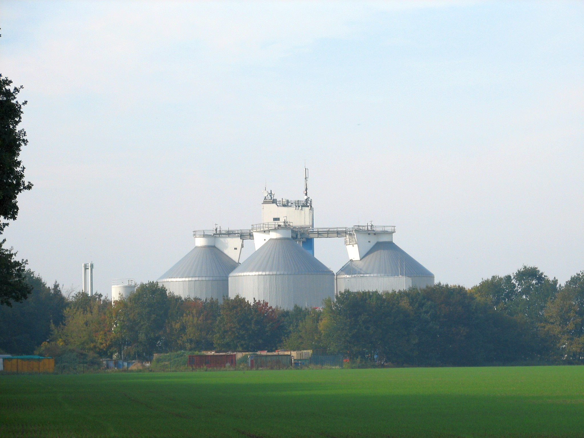 The sewage works near Münchehofe.